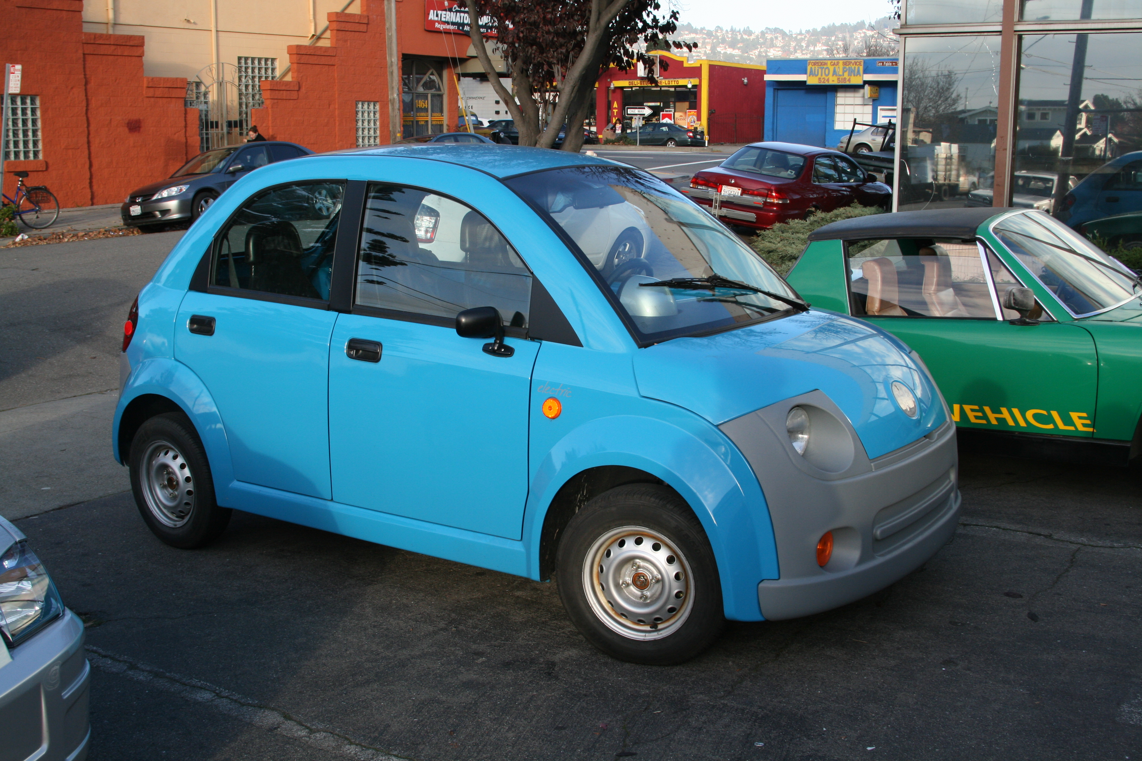 Neighborhood Electric Vehicle by Dynasty Motors